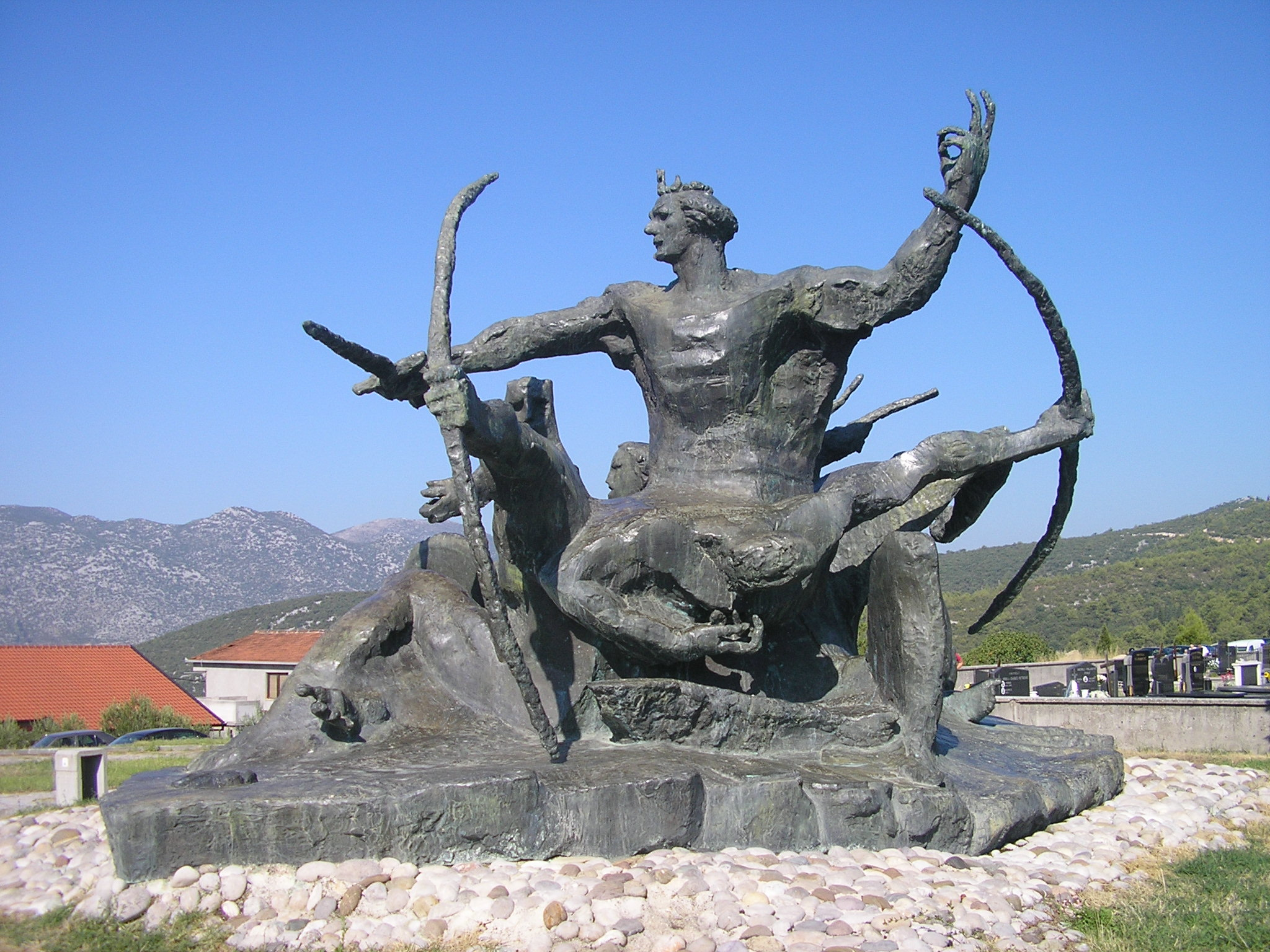 Domagoj archers monument in Vid, Croatia